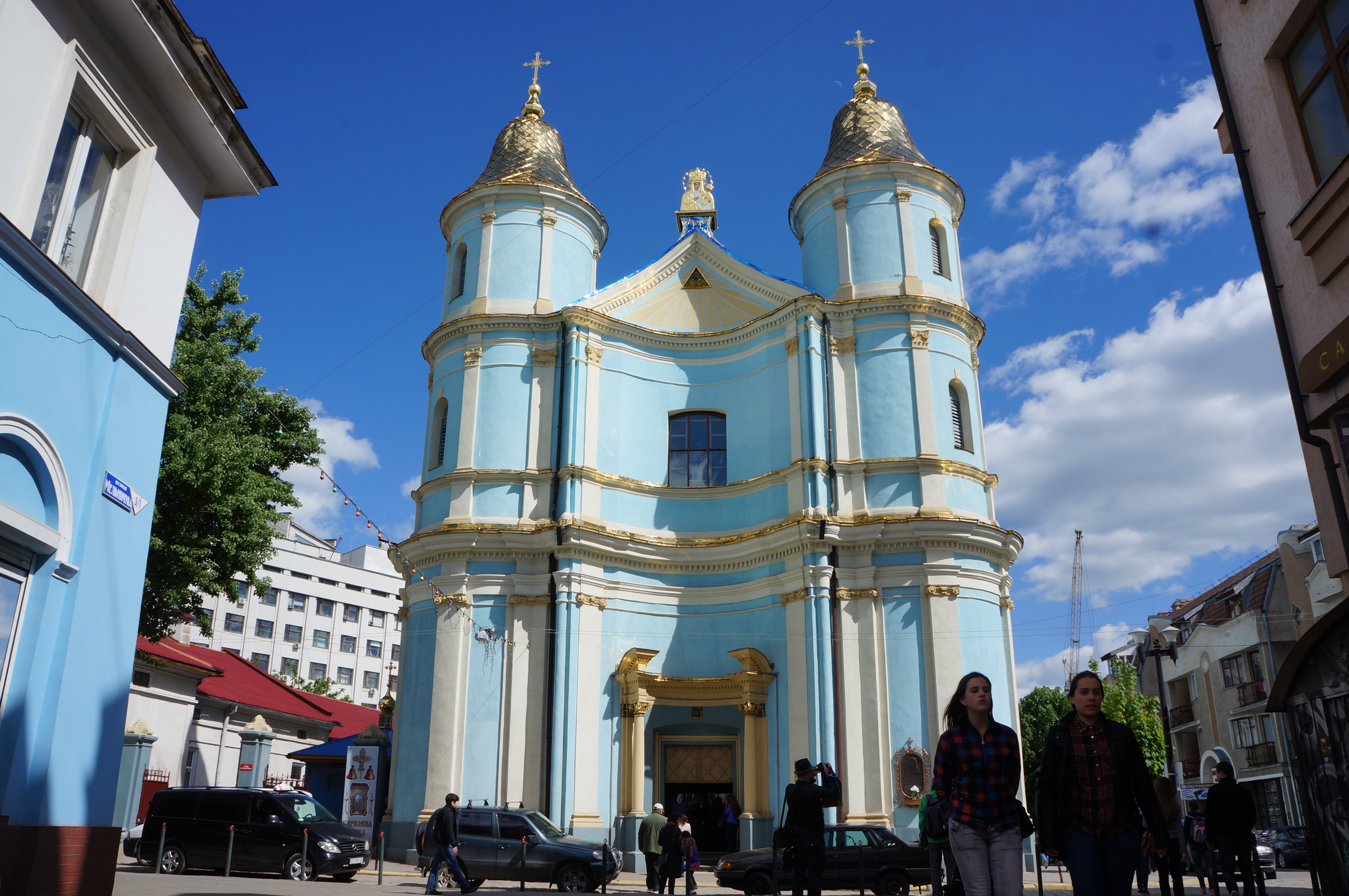 Former Armenian cathedral, which today belongs to Ukrainian Autocephalous Orthodox Church